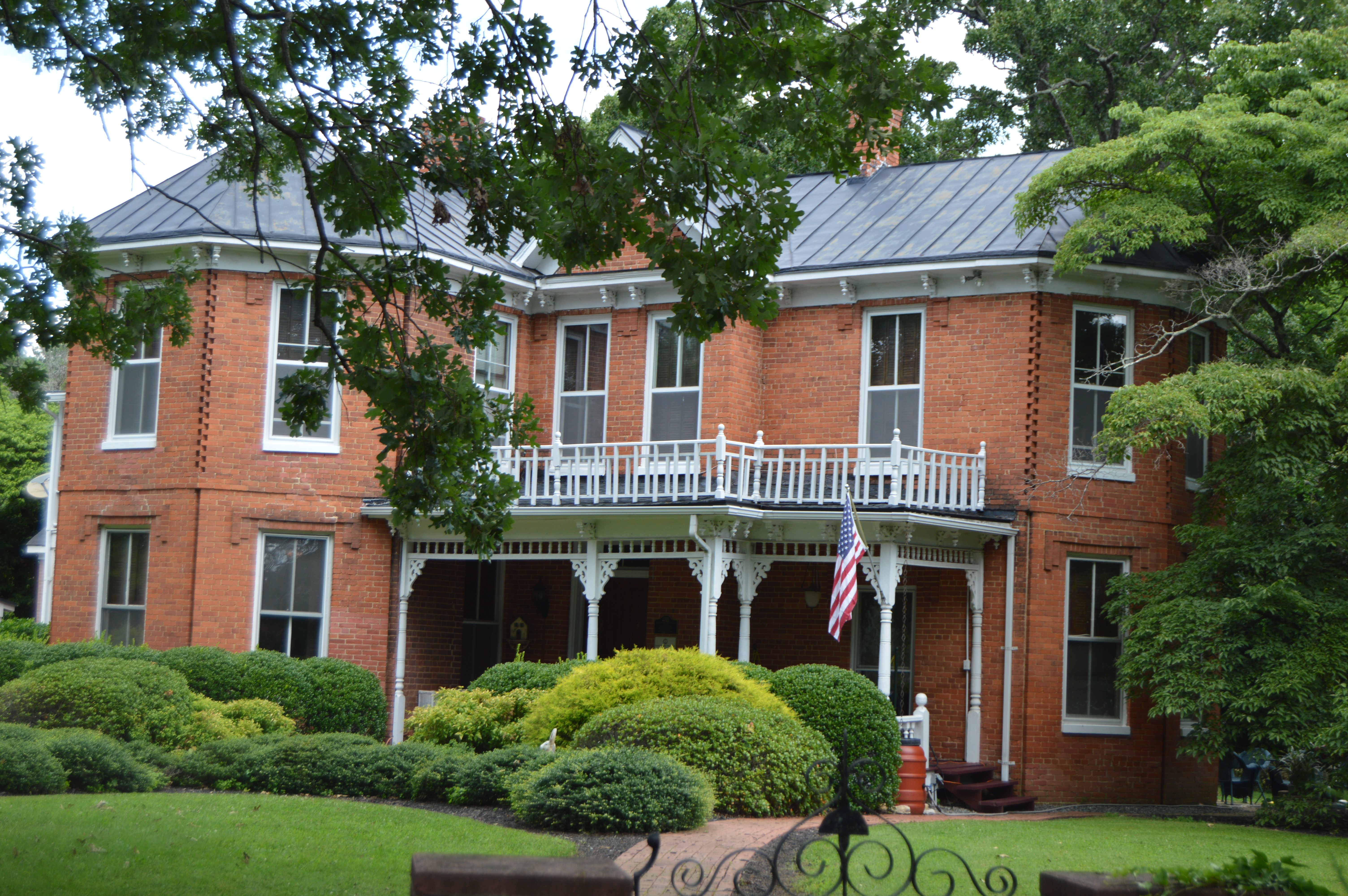 Front of the Judge Henry Wood, Jr., House, located at 105 Sixth Street in Clarksville, Virginia, United States. Built in 1830 and later expanded, it is listed on the National Register of Historic Places.